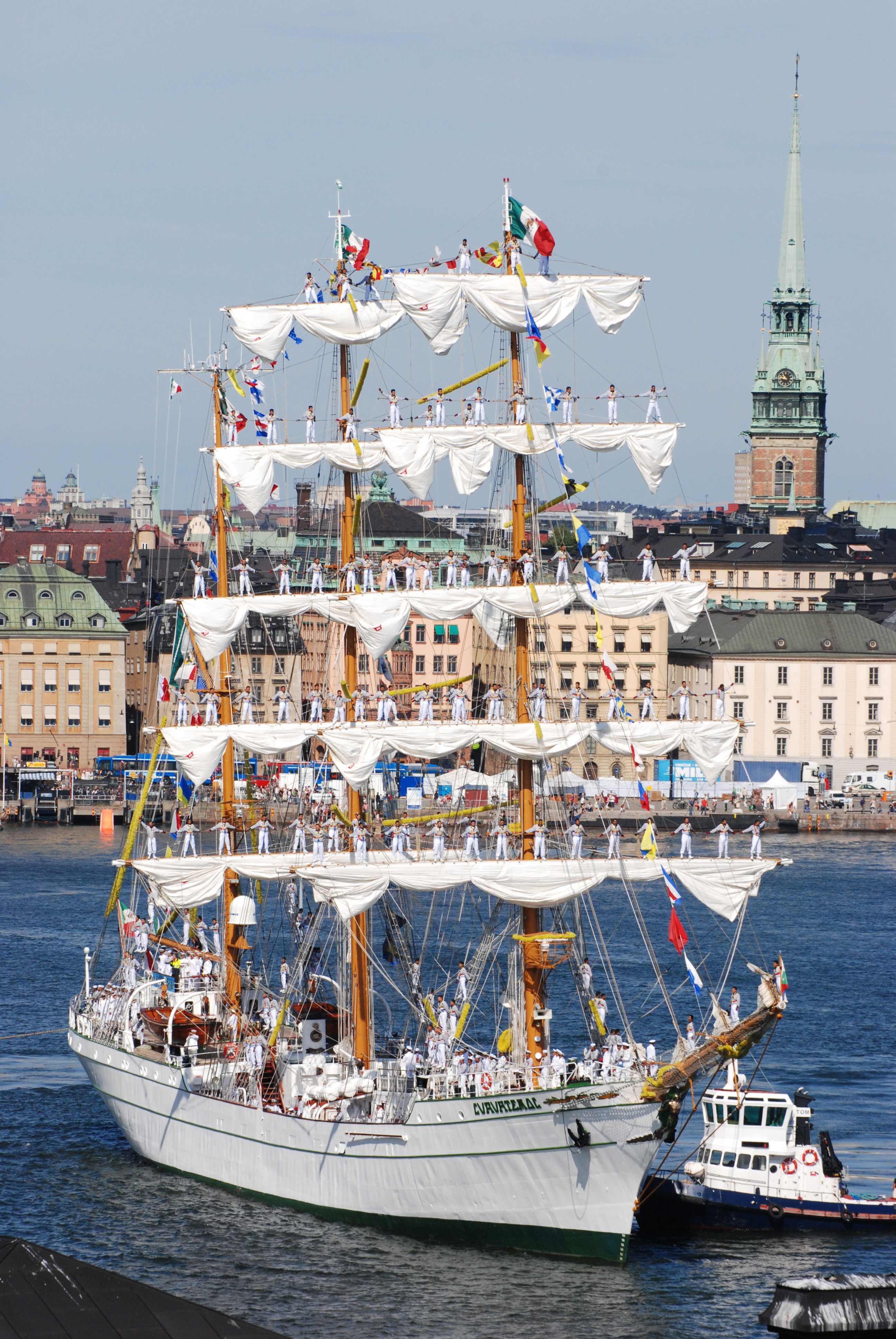 Cuauhtémoc in Stockholm at Tall ships' races July, 2007